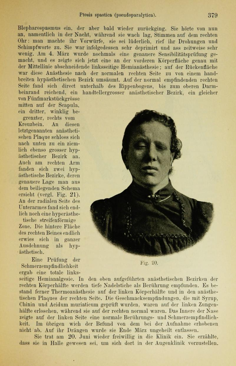 Binswanger (1904) Die Hysterie p.379 n.20, reused in Szondi test in serie 2 image 1.